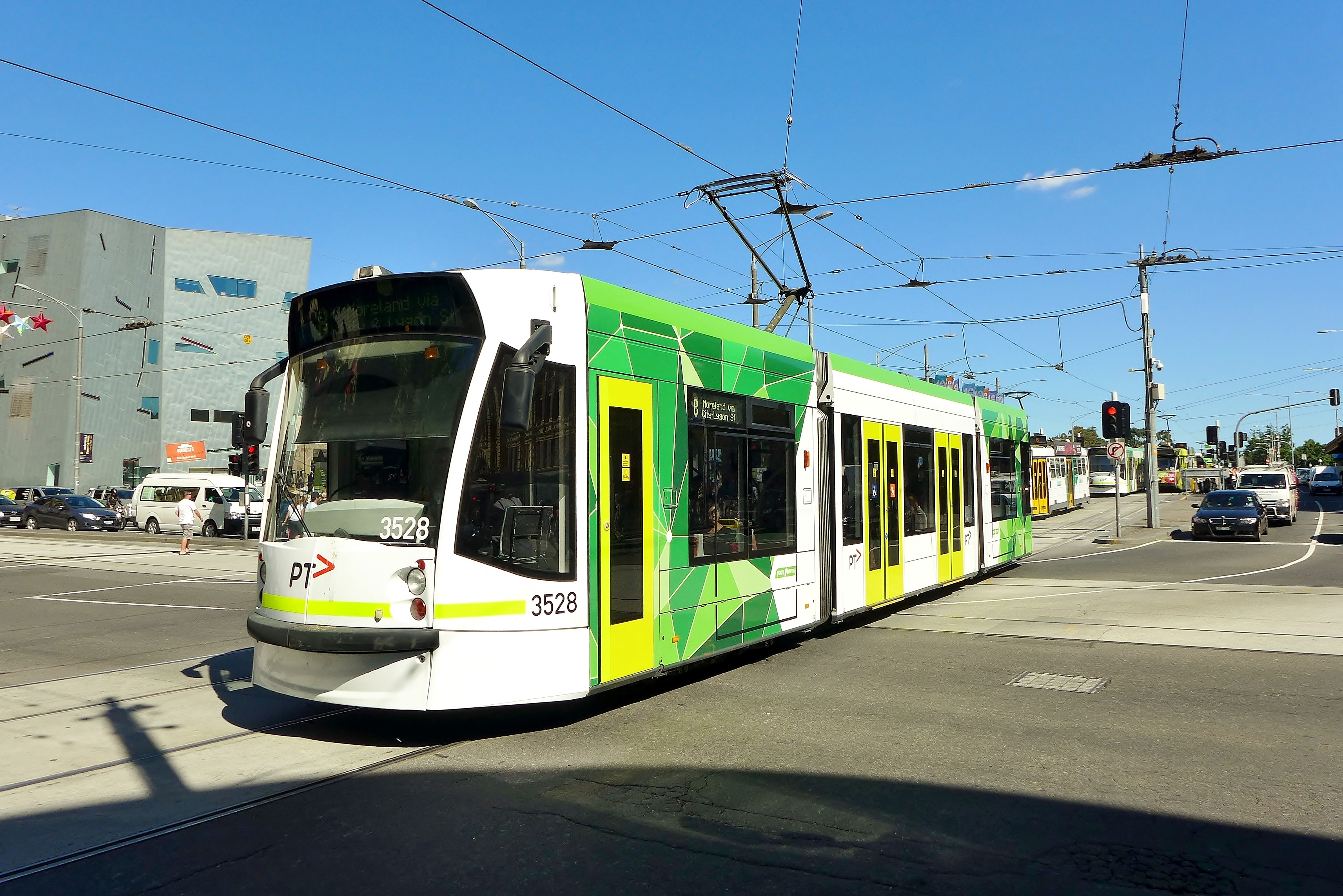 D1 class Combino tram no 3528 crossing from St Kilda Road over Flinders Street into Swanston Street, with a route 8 service from Toorak to Moreland in Melbourne, Australia.